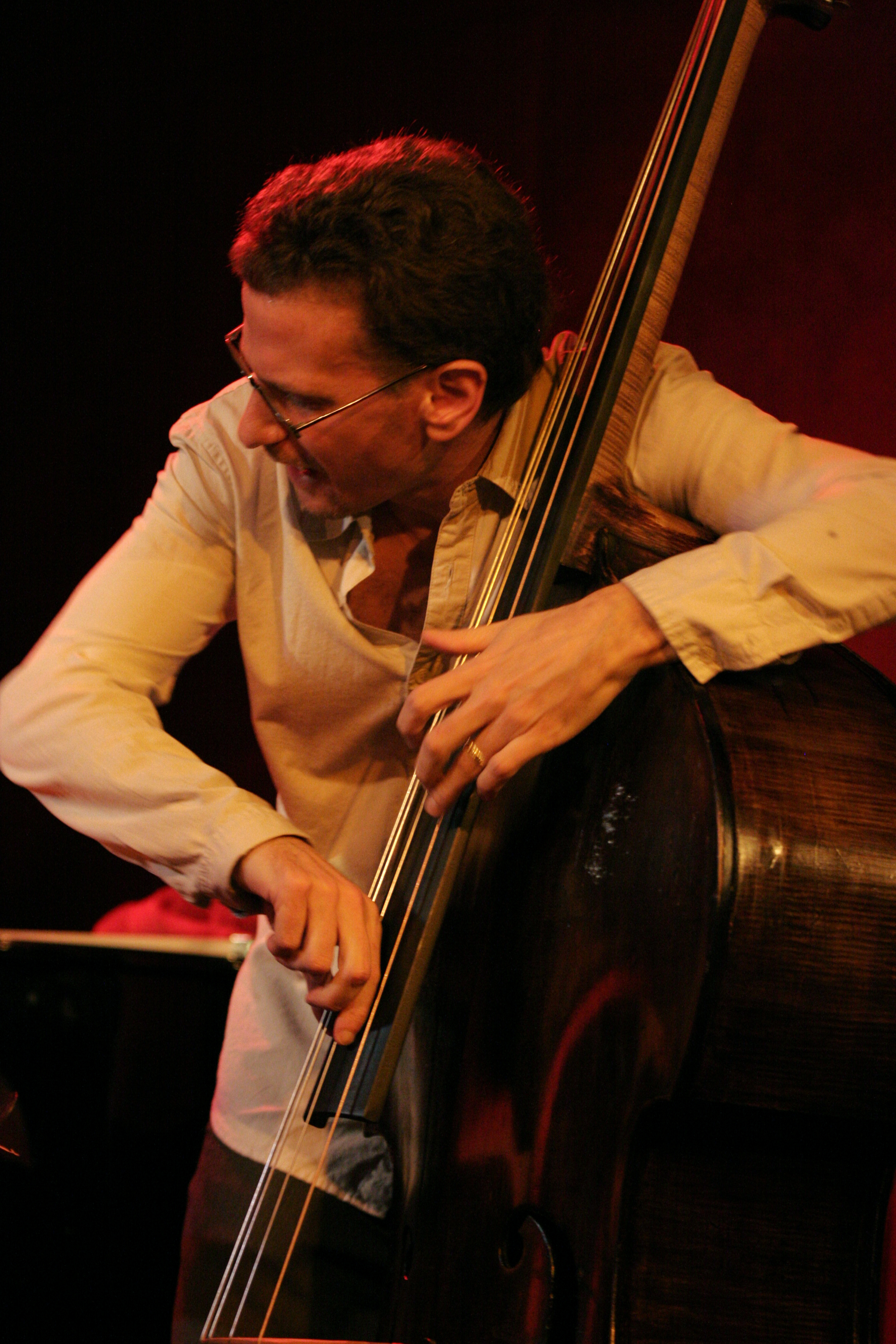 Larry Grenadier at Jazz Standards with Fly, April 9, 2009 Photo: Claire Stefani